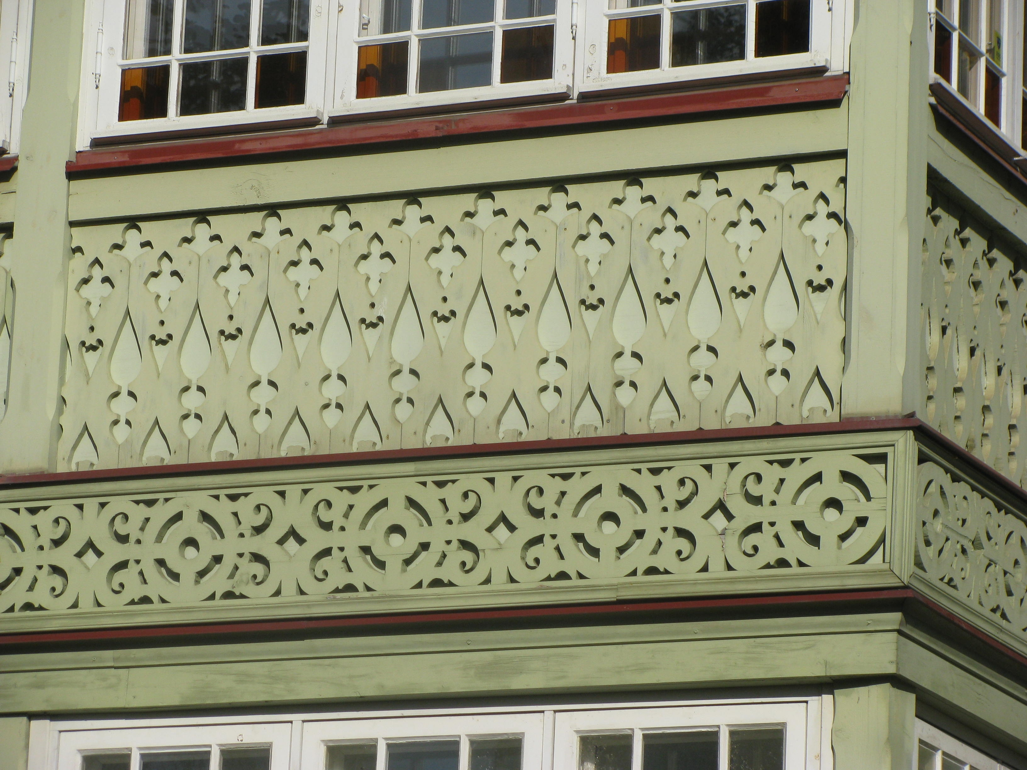 Tartu, Näituse 5 - a wooden ornament, September 30, 2011.